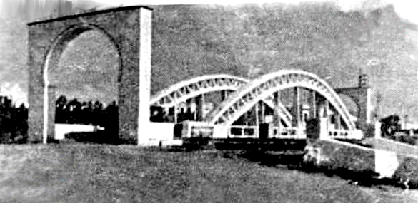 Arch bridge of reinforced concrete built in 1931 in the town of Korba in Tunisia.